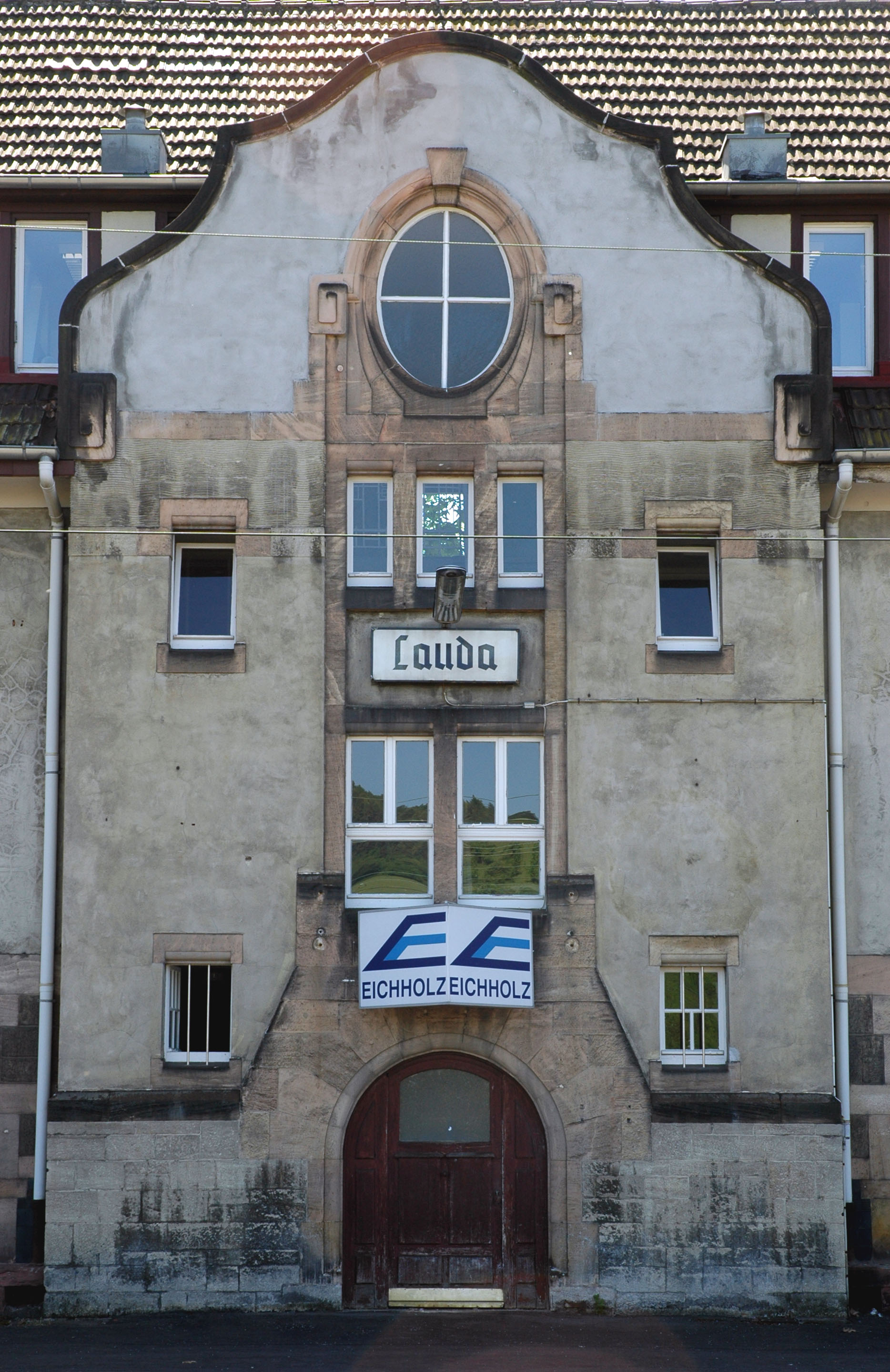 median risalit on the back side of former authorities' building at Lauda railway station, built in 1907.